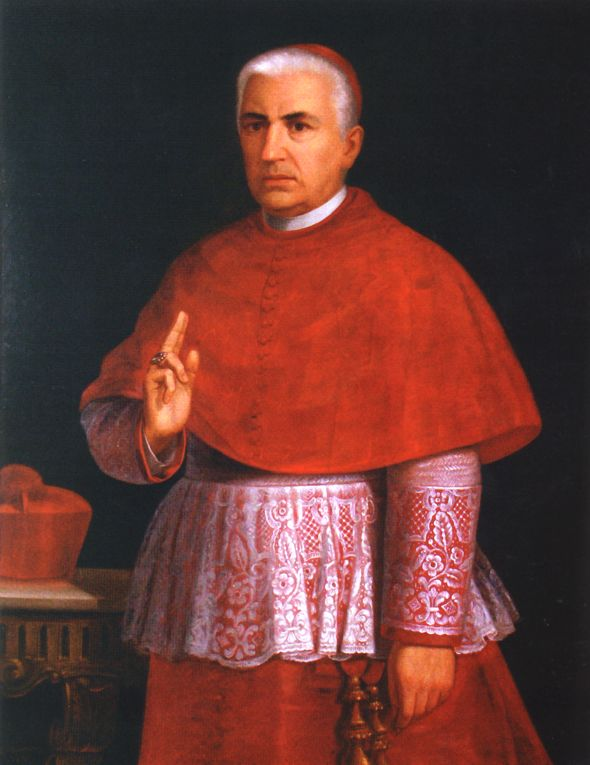 Dom Inácio do Nascimento Morais Cardoso (1811-1883), Cardinal-Patriarch of Lisbon.